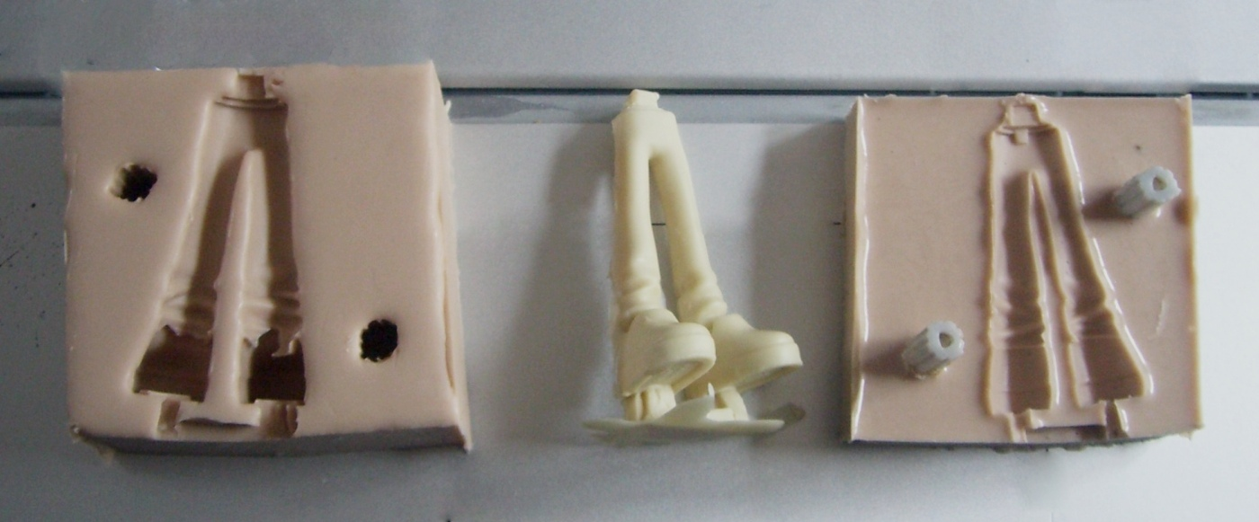 Silicone two-part mould to cast resin dolls. Custom Pinky street figure part. This is a part of a tutorial i'm writing for on how to realize silicone molds an how to cast resin dolls.